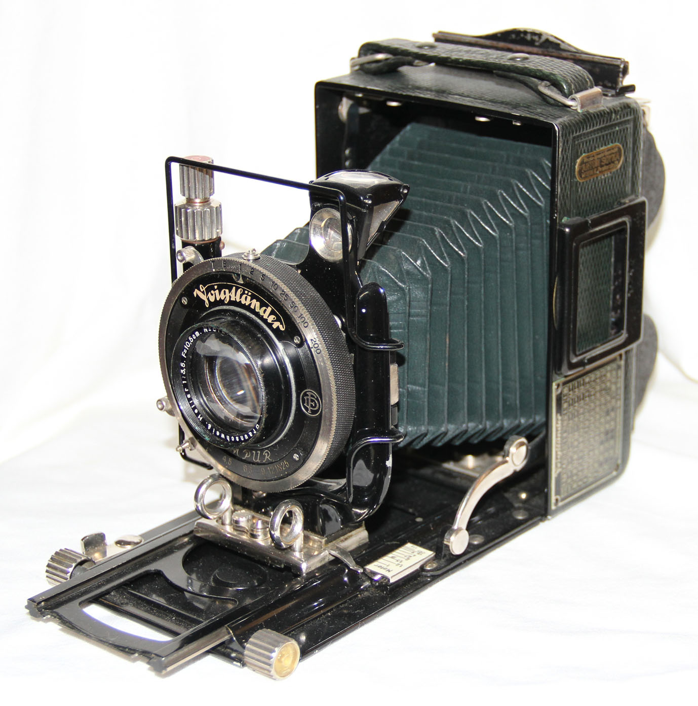 Voigtländer «Bergheil» 6.5 x 9, green, built in 1932